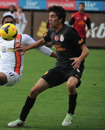 Emre Can Galatasaray - Schaktar Donetsk hazırlık maçında ilk 11'de forma giyerken.